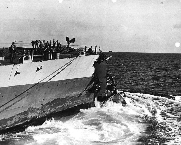 USS Washington (BB-56) underway with a collapsed bow, after colliding with USS Indiana (BB-58) during the Marshalls Operation, 1 February 1944.